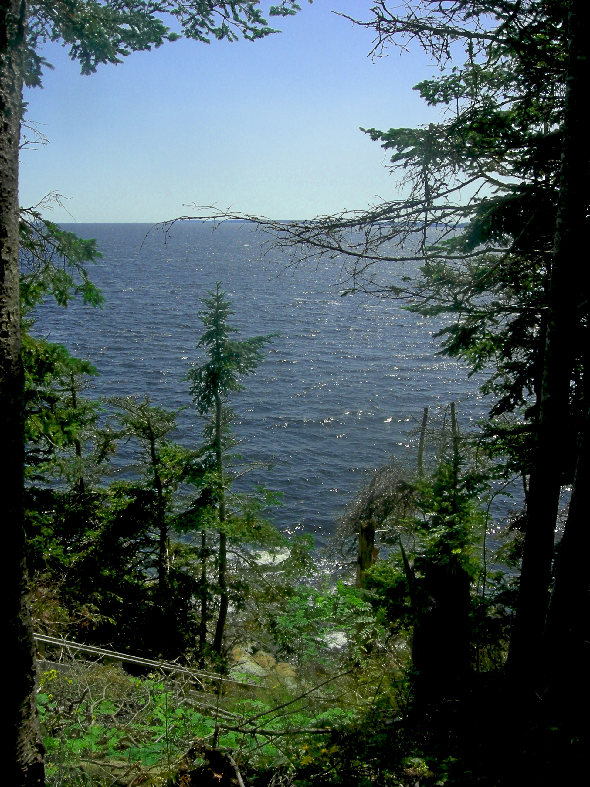 Dyce's Head, Castine, ME, where a force of some 400 American Marines and militia under Brig. Gen. Peleg Wadsworth landed on July 28, 1779 to attack the British during the disastrous Penobscot Expedition